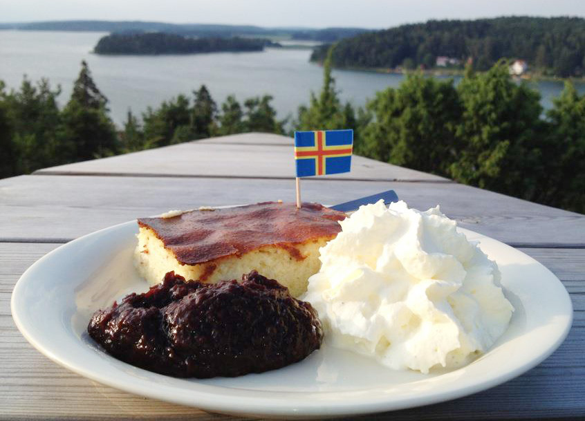 Ålands pancake, a traditional dessert from Åland Islands, Finland. The pancake is made from rice- or semolina porridge, flavoured with sugar, salt, cardamom powder and vanilla, and is served with stewed plums and whipped cream.